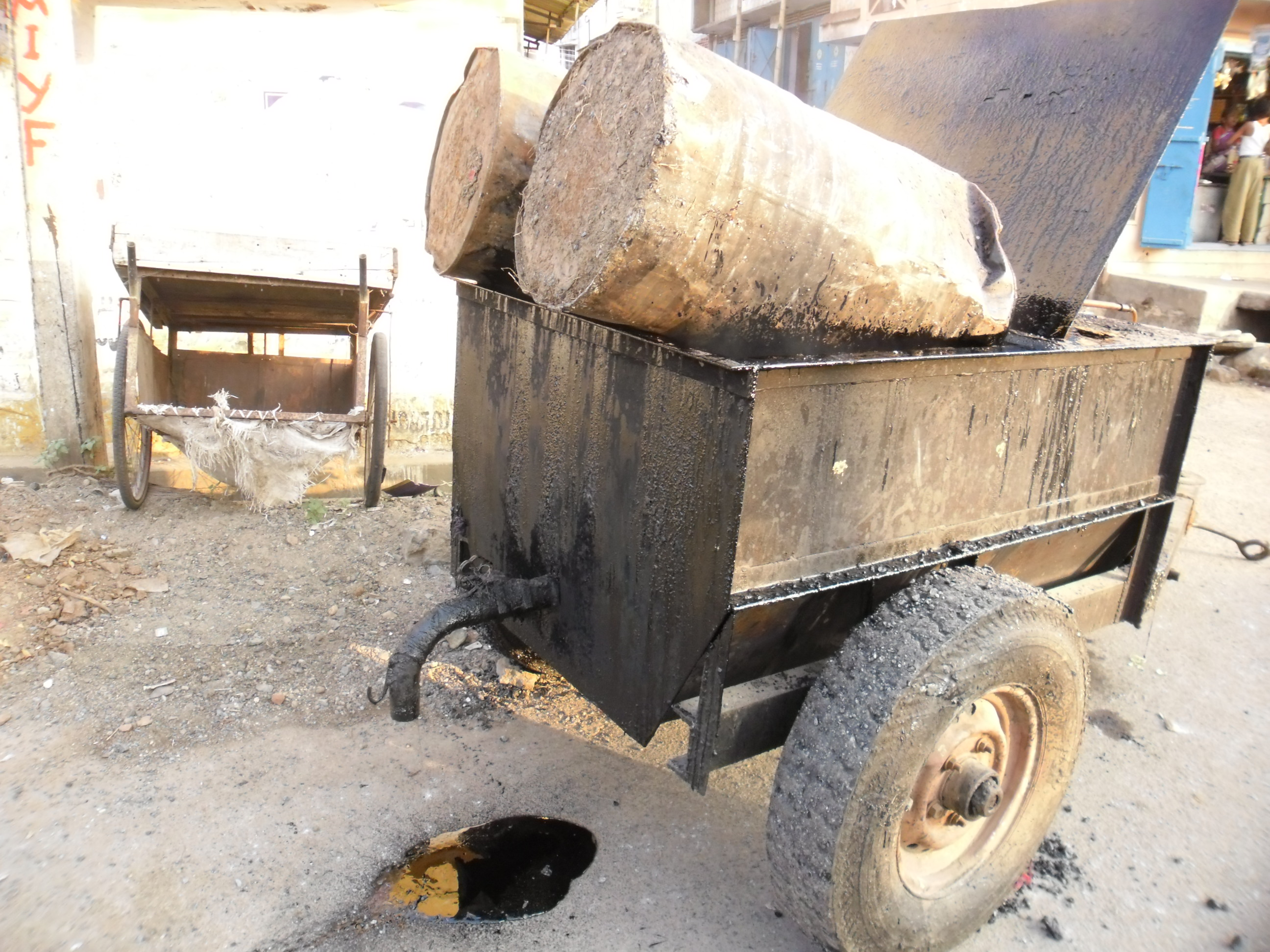 Tar is melted so it will be paved easily on the roads.